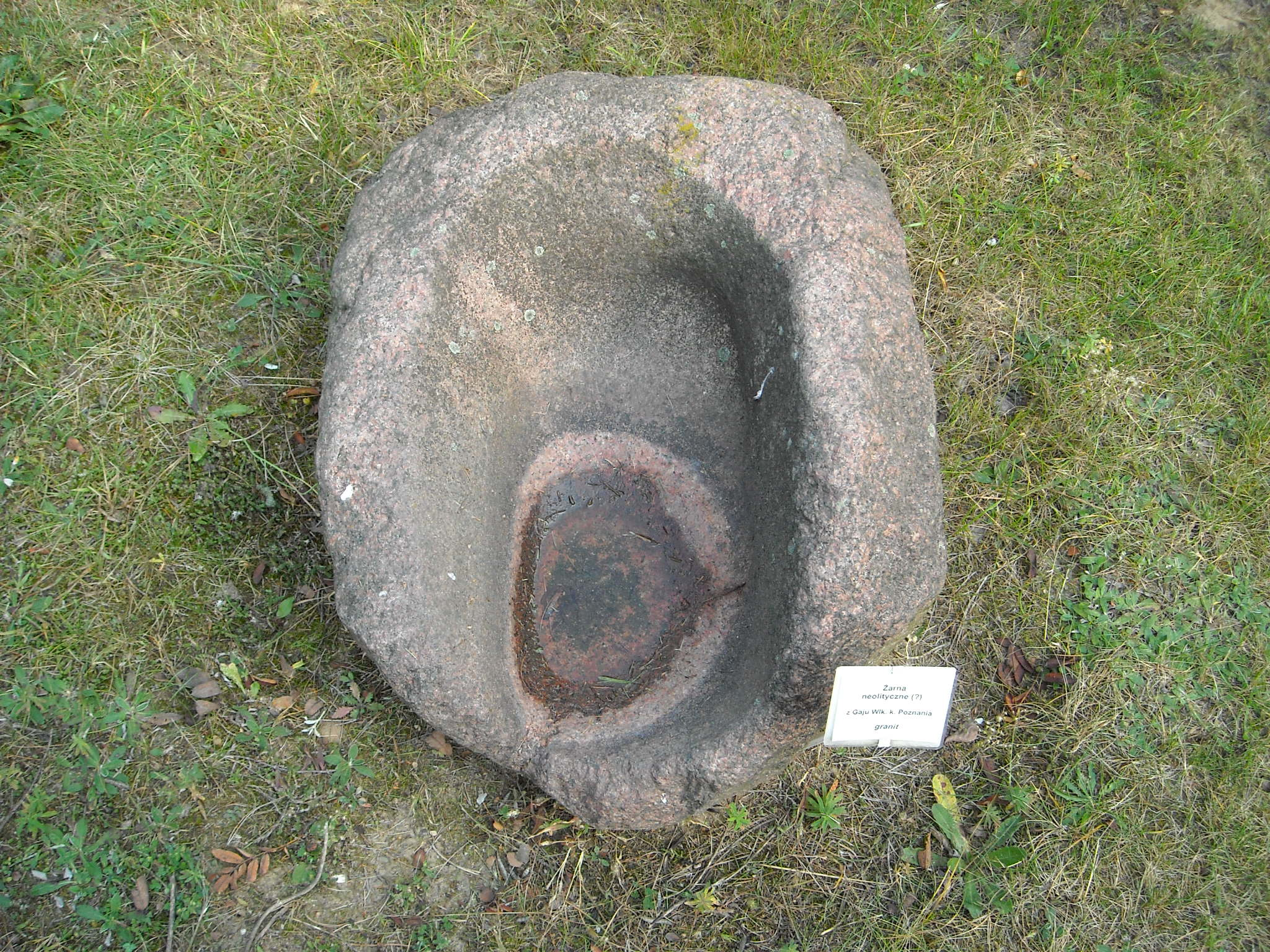 Neolithic quern from Gaj Wielki (Poznań, Poland)